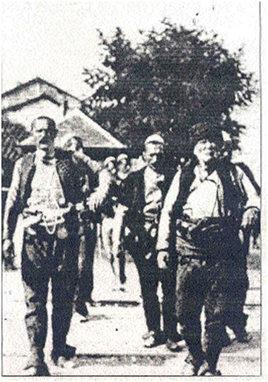 Idriz Seferi and his men near Ferizaj (1910)